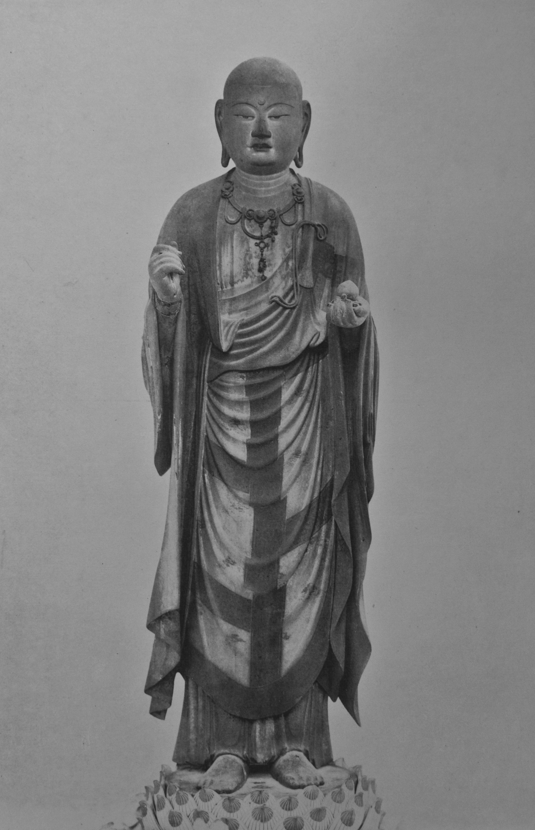 Todaiji, Nara, Japan